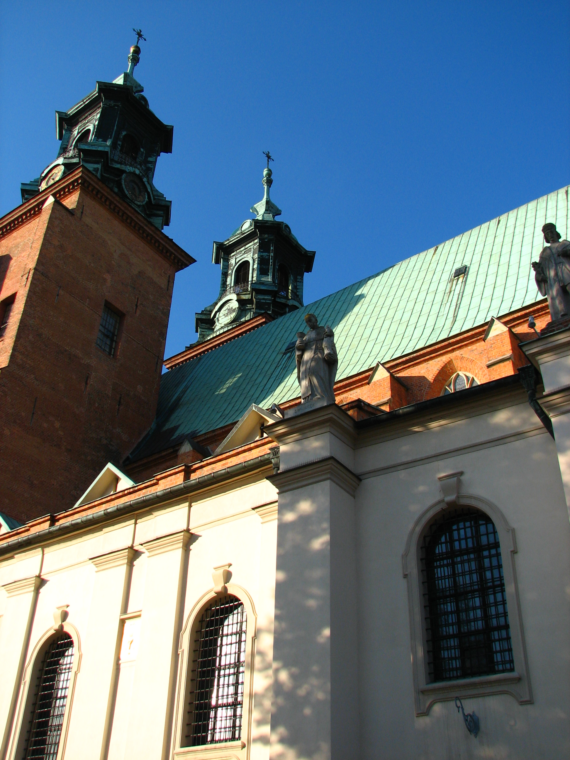 Cathedral Basilica of the Assumption of the Blessed Virgin Mary and St. Adalbert. Gniezno, Poland